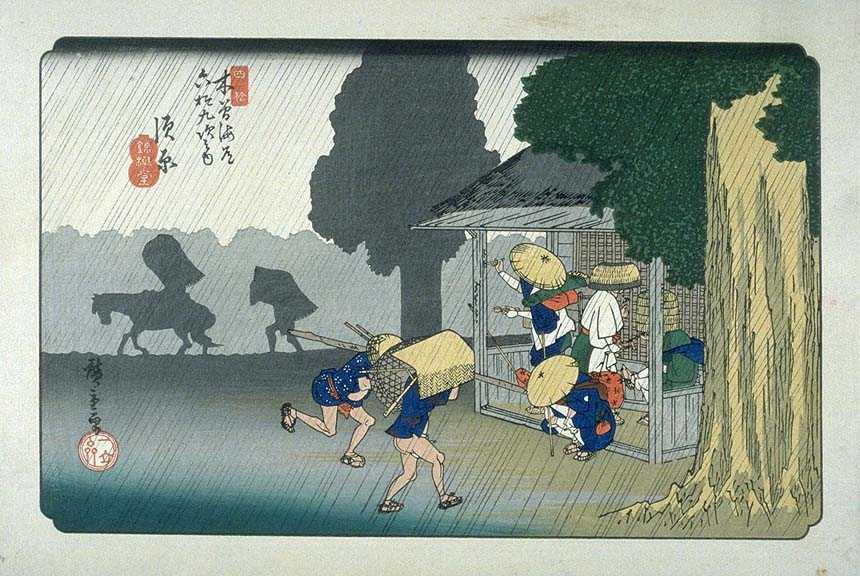 Suhara on the Kisokaido, ukiyo-e prints by Hiroshige